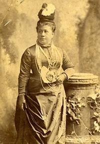 A New York studio portrait of Queen Kapi'olani wearing a hat and a necklace of several strands of Ni'ihau shells. The photo was taken en route to Queen Victoria's Jubilee in England. Photo: Henry Walter Barnett of Falk Studios, May 1887.